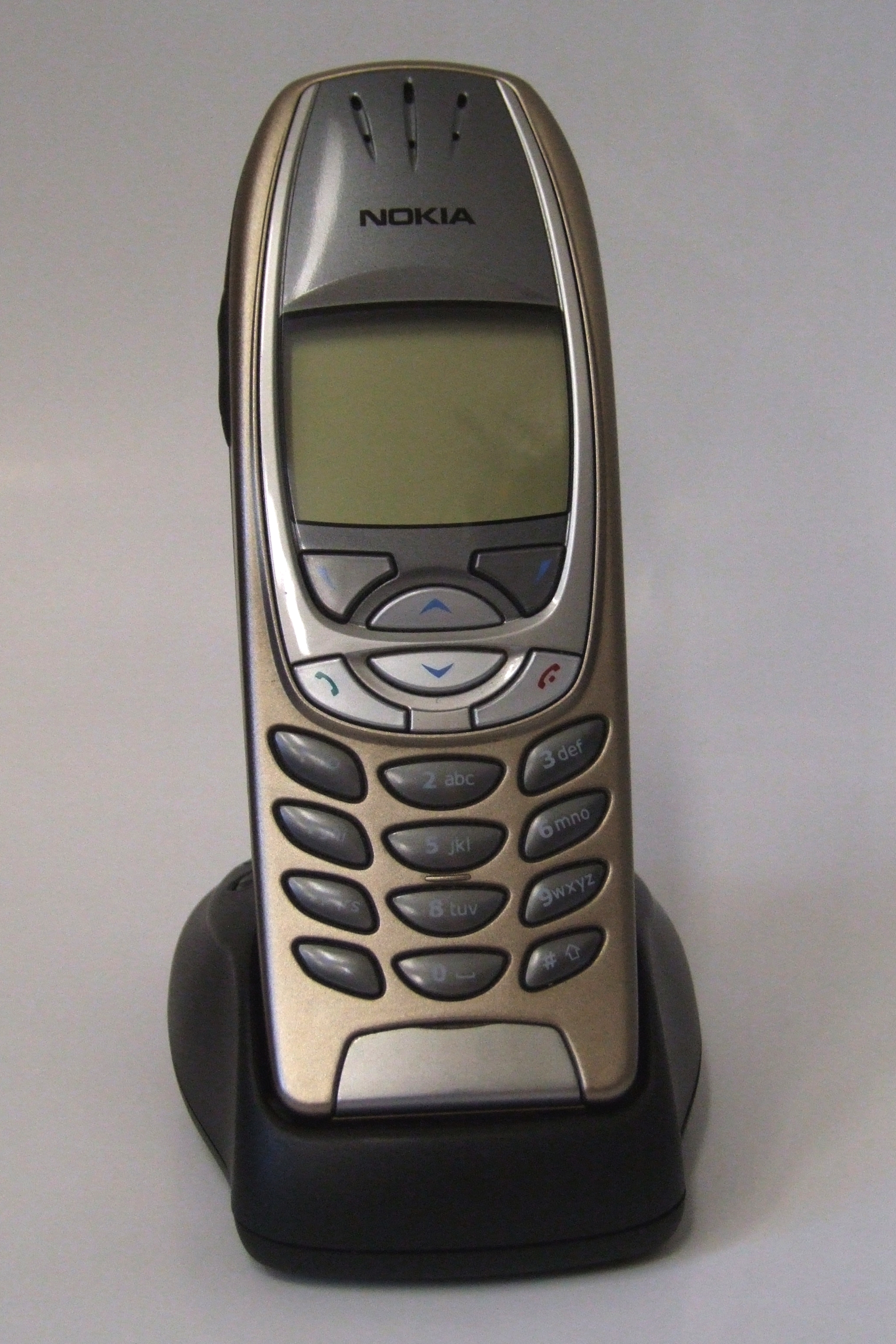 Nokia 6310i GSM mobile phone in DCH-9 charging dock.